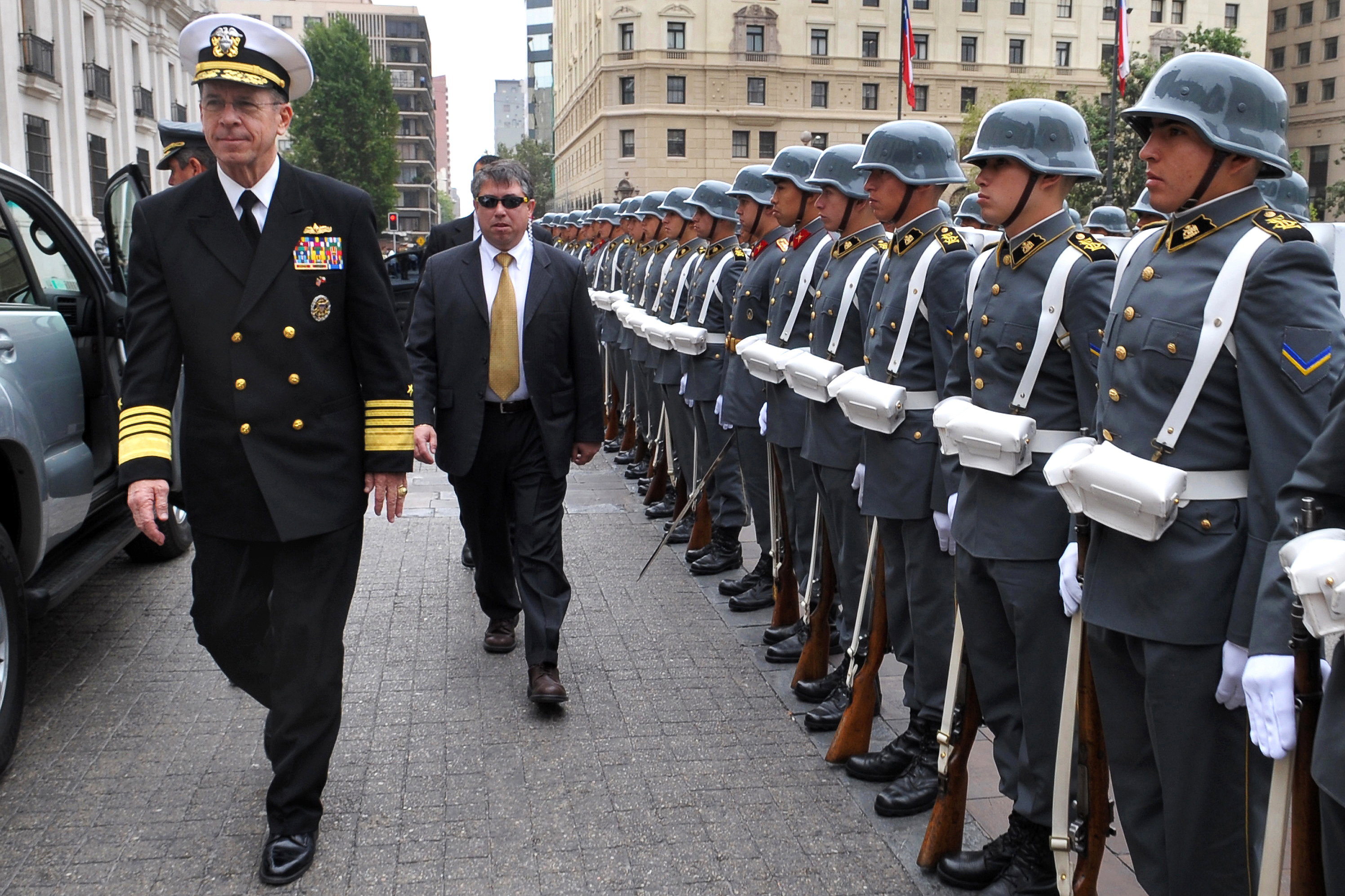 U.S. Navy Adm. Mike Mullen, Chairman of the Joint Chiefs of Staff, walks past a formation of Chilean troops in Santiago, Chile, March 3, 2009. The chairman visited the country to meet with senior Chilean officials and speak at the Chilean Army War College.